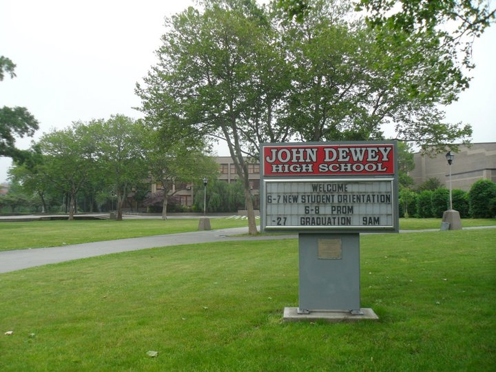 This picture is of John Dewey High School's 13 acre campus, the only public school in New York City to have a 13 acre campus. The campus is also home to a bronze statue titled "The Key to Knowledge" symbolizing progressive education. However, the statue cannot be seen clearly from this picture. For the image of the statue, please refer to John Dewey High School's Wikipedia page. This picture was taken on June 11, 2011.